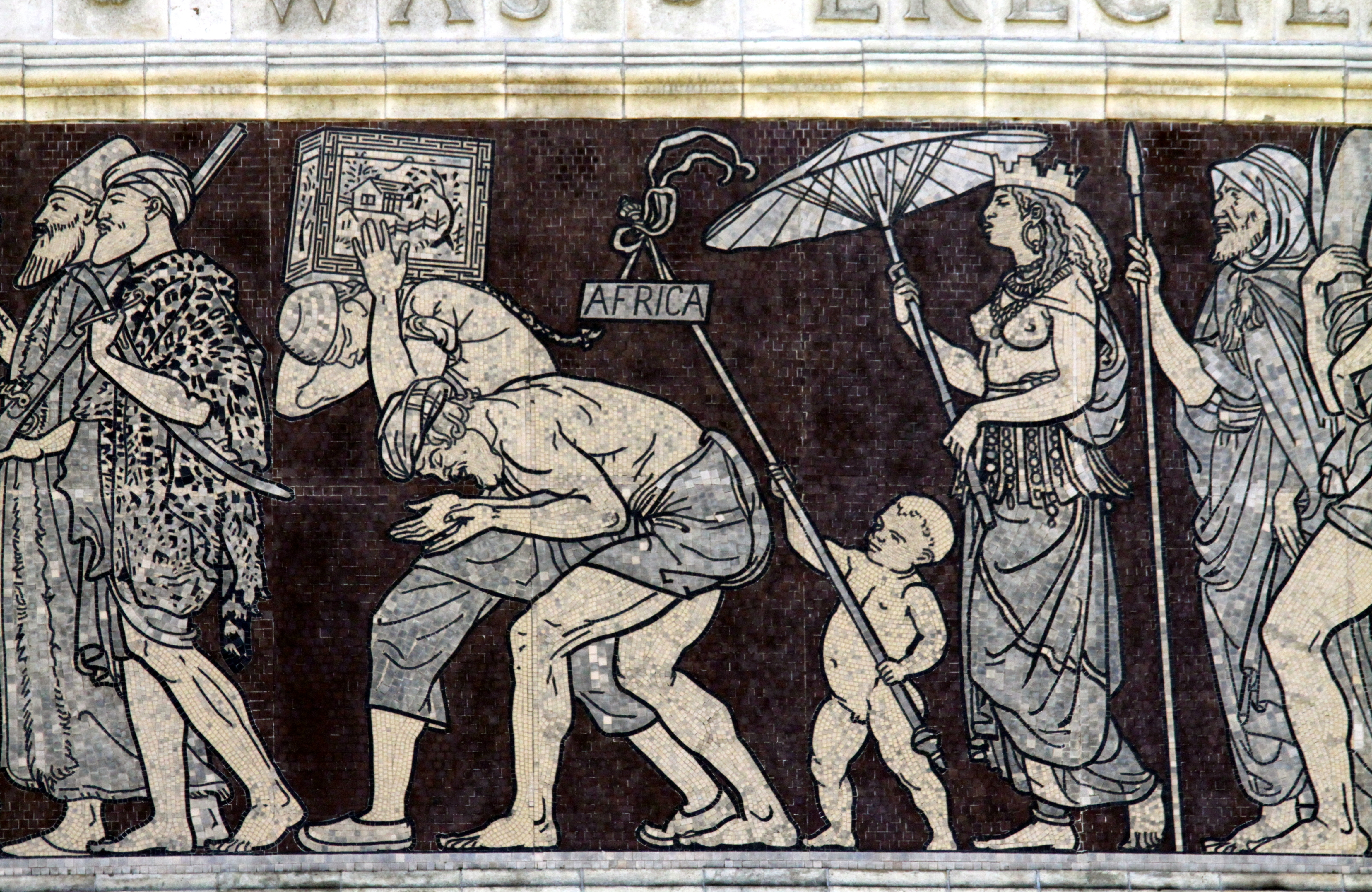 Frieze on the Royal Albert Hall in the City of Westminster, London, Great Britain. The making of this file was supported by Wikimedia UK.